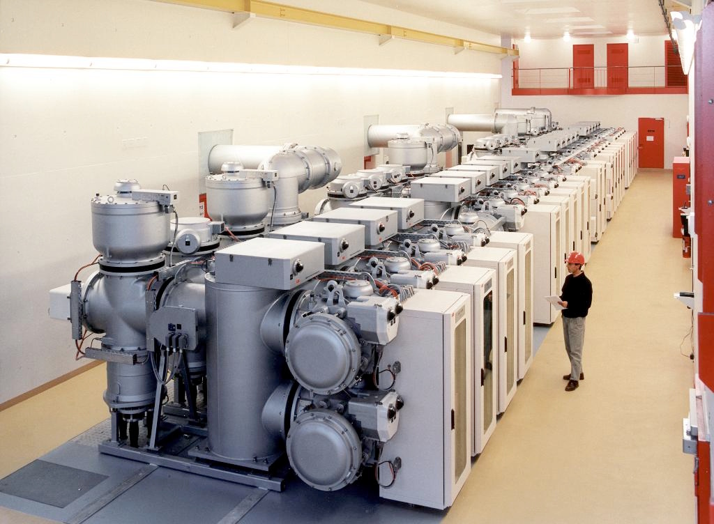 "Key point substation to feed into general grid and HV-Connection to France. Compact, flexible and economic solution for energy distributiona and subtransmission."